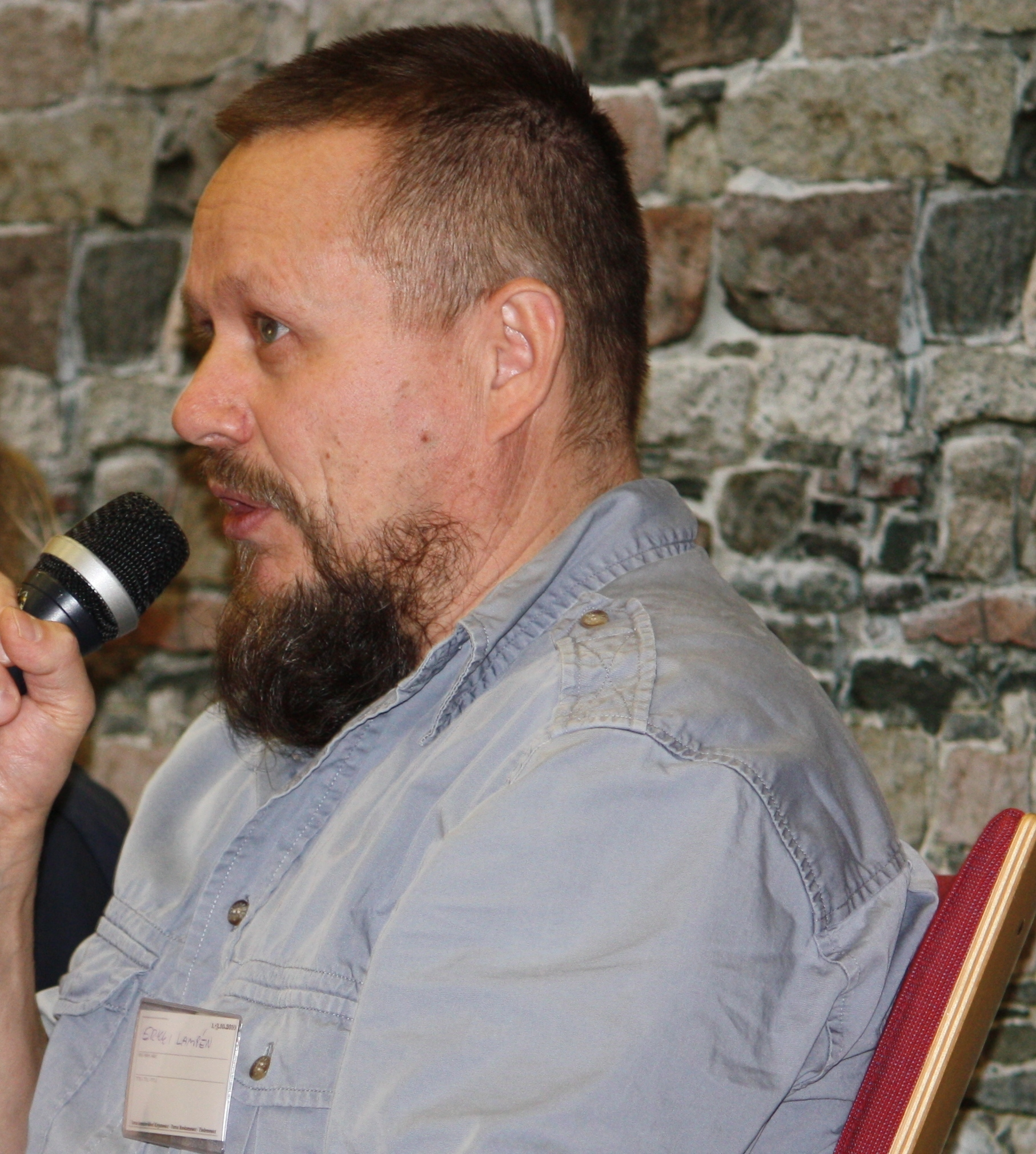 Finnish travel writer Erkki Lampén at the Turku Book Fair 2010.